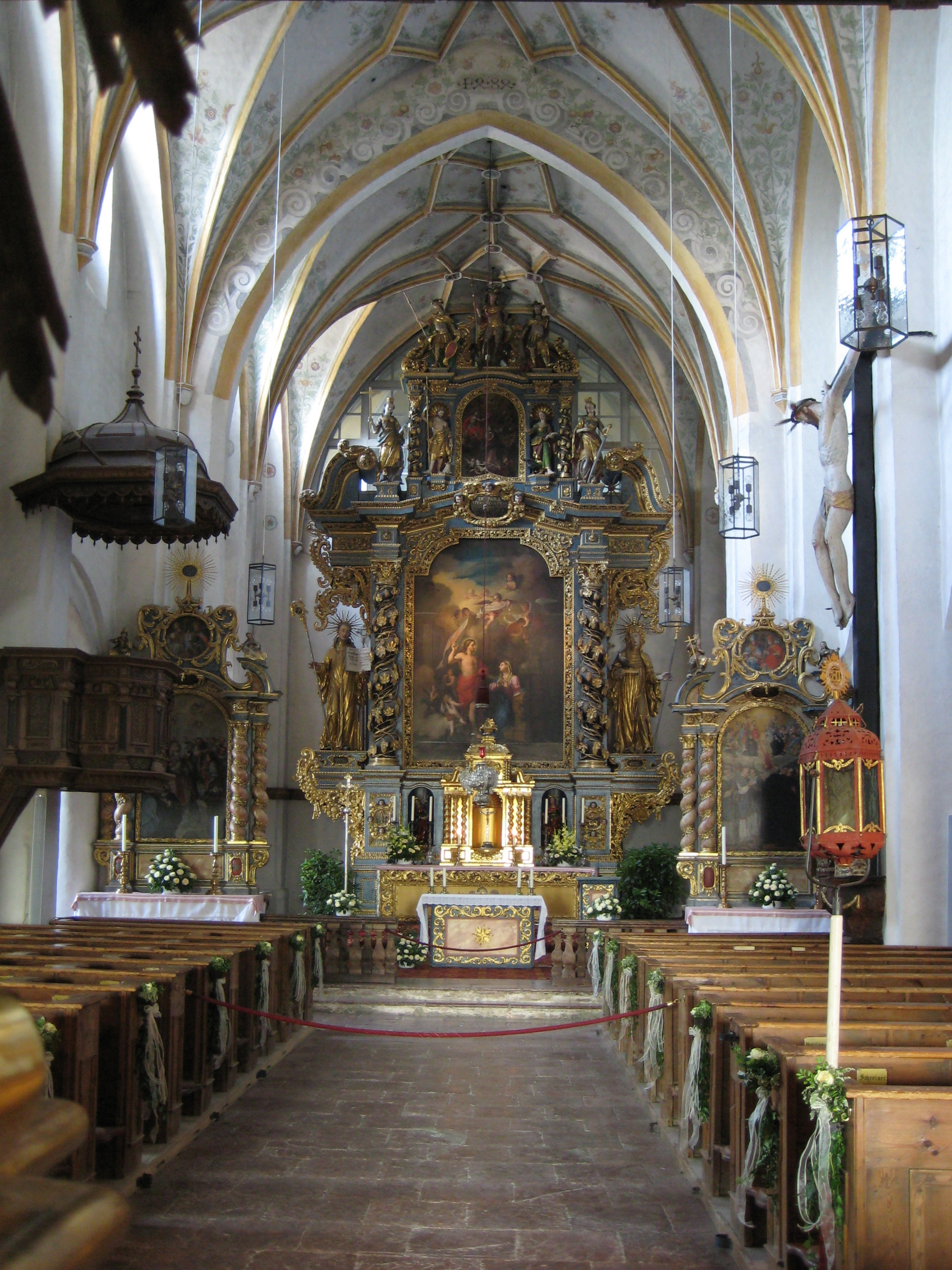 Chiemsee, Fraueninsel